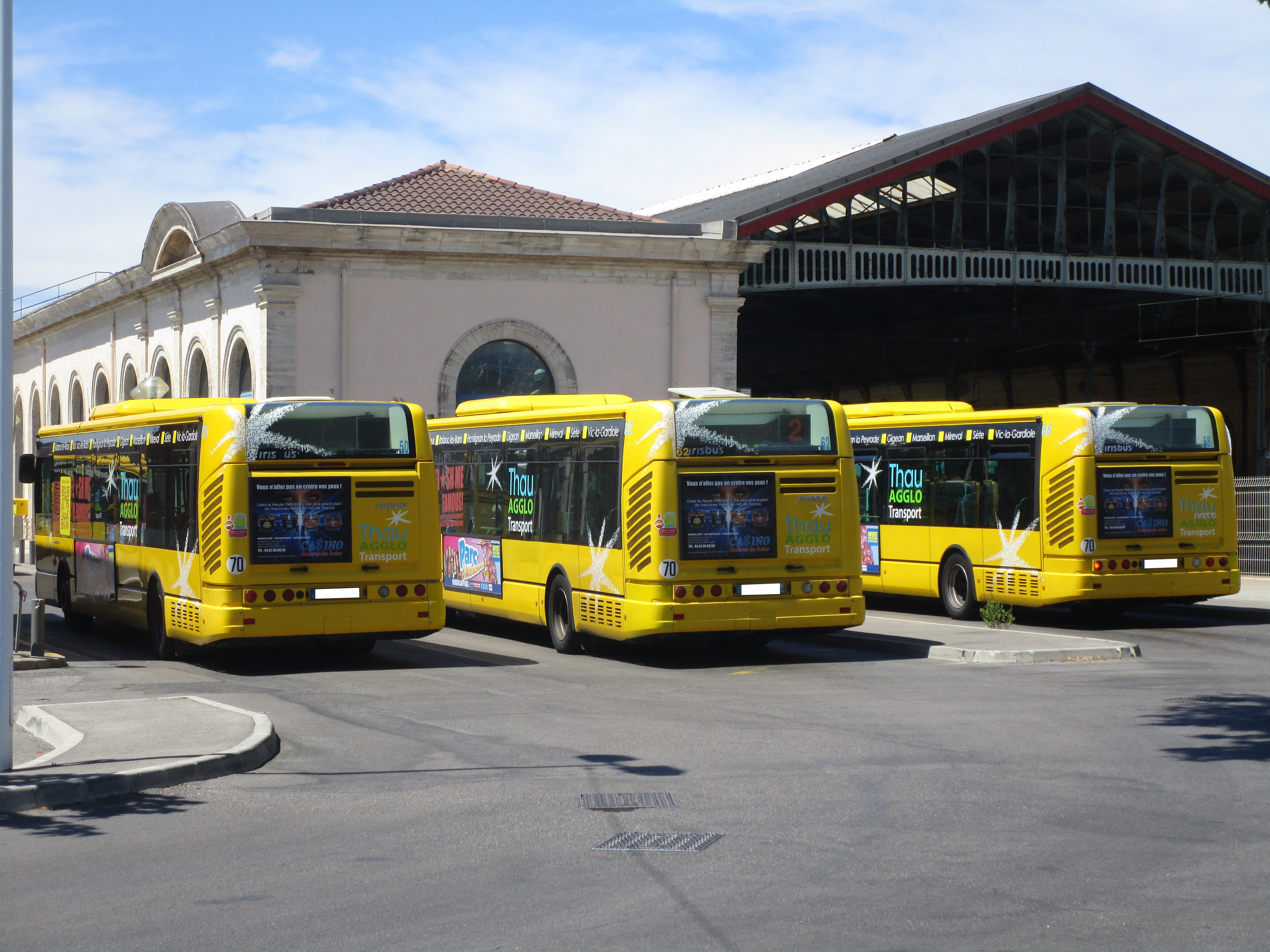 The Irisbus Citelis 12 n°50, 62 and 58 of Thau Agglo Transport at the call Gare SNCF in Sète on July 31, 2015.